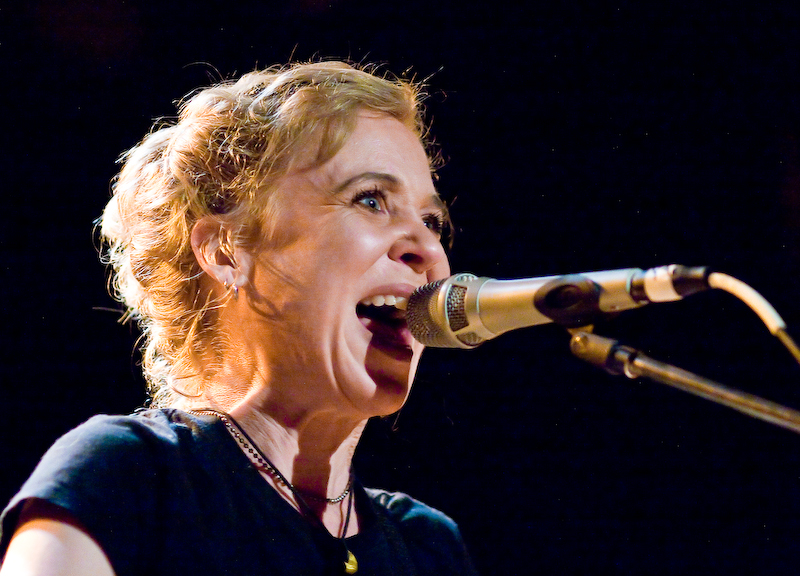 Kristin Hersh at the Bowery Ballroom